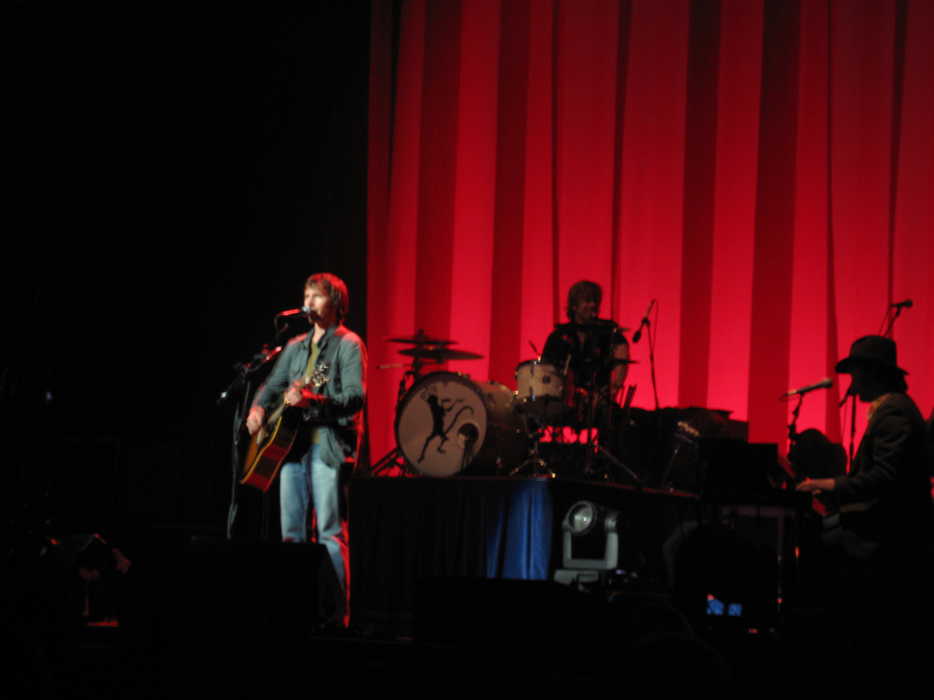 James Blunt concert at the Paramount Theatre, Oakland. North American Fall Tour, November 12, 2006.